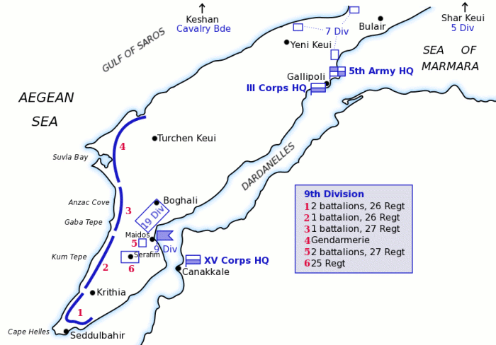 Map of the disposition of the Turkish Fifth Army at Gallipoli prior to the landings of April 25, 1915 during the Battle of Gallipoli.